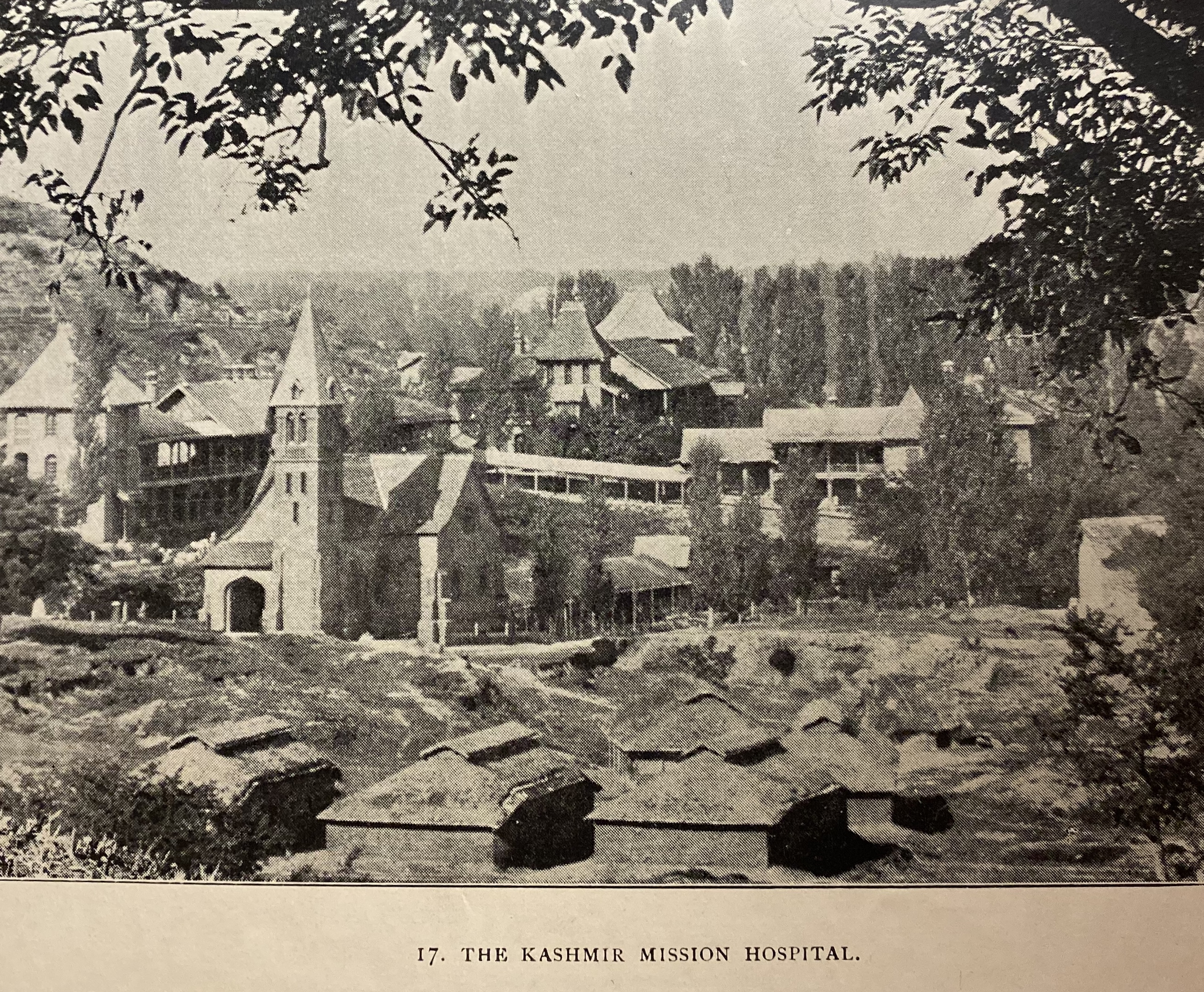 The Kashmir Mission Hospital where the Neve brothers and niece worked in the early 20th century.